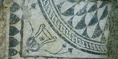 mosaico pescara